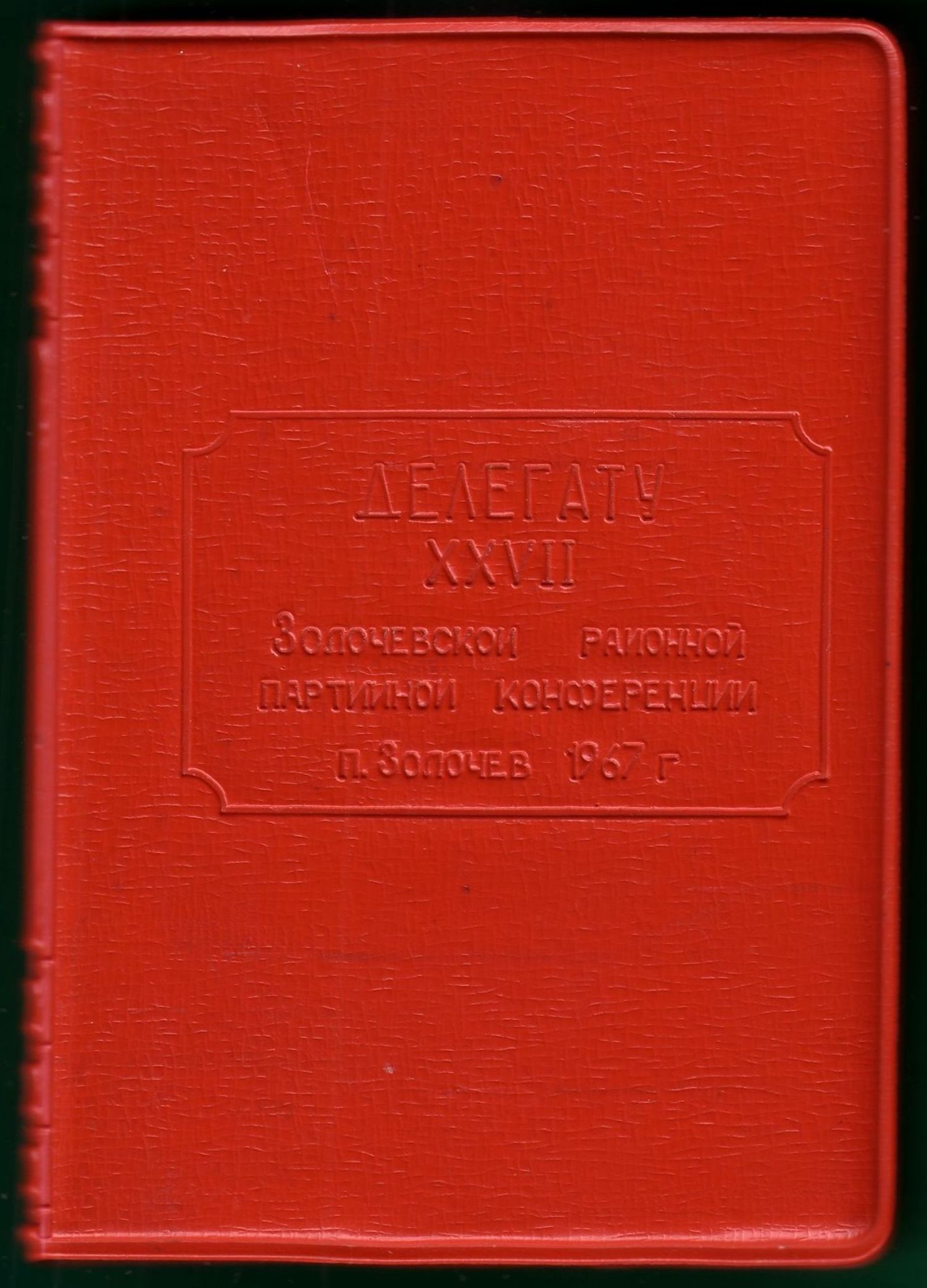 Cover books for the delegates of the Zolochiv 27th district Party Party Conference of the CPSU, Kharkiv region